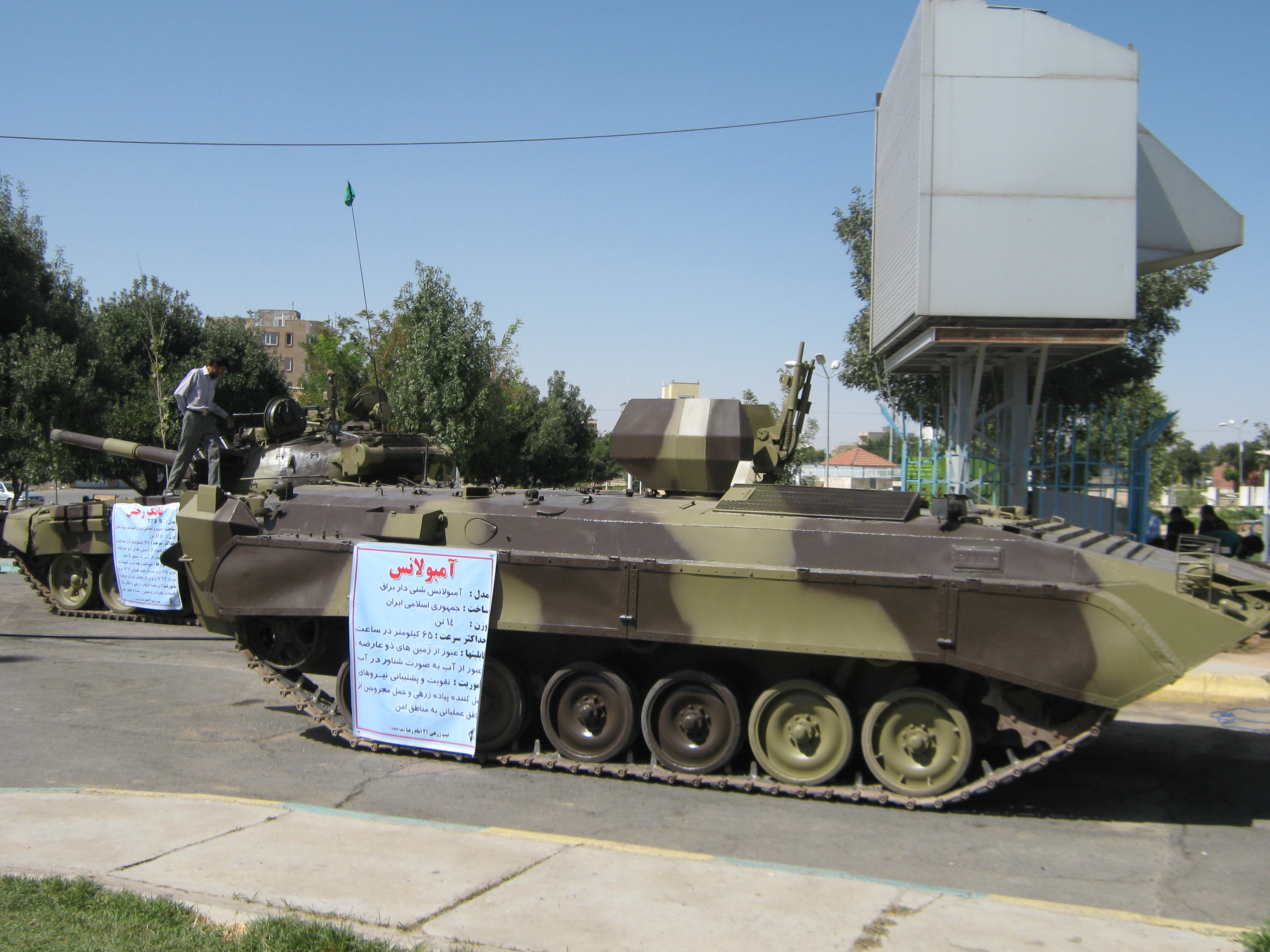 Holy Defence Week Expo - Simorgh Culture House - Nishapur